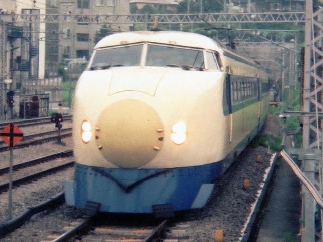 Central Japan Railway Company, Shinkansen Series 0. At Odawara Sta. about 1990 Photo by Cassiopeia_sweet.